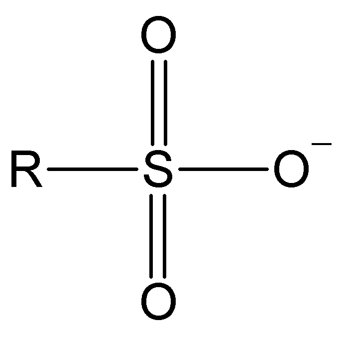 Comments High-resolution black/white .PNG made with ChemSketch and Photoshop — see WikiProject Chemistry - structure drawing for detailed instructions. Please drop me a note if you need the source file. Category:Chemical structures (Original text: Chemical structure of Sulfonate)